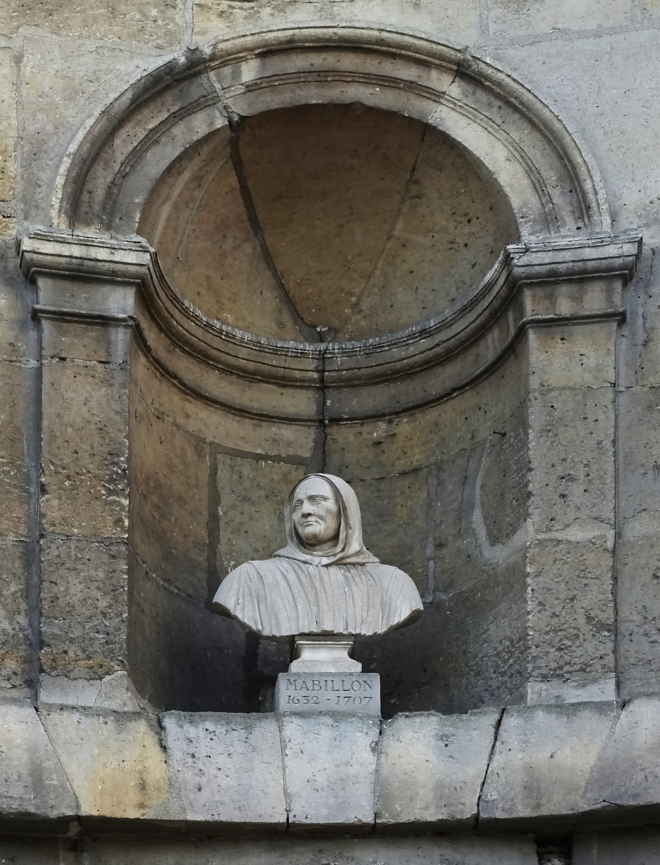 Bust of Jean Mabillon, place Saint-Germain-des-Prés, Paris, (6th arr.) France.